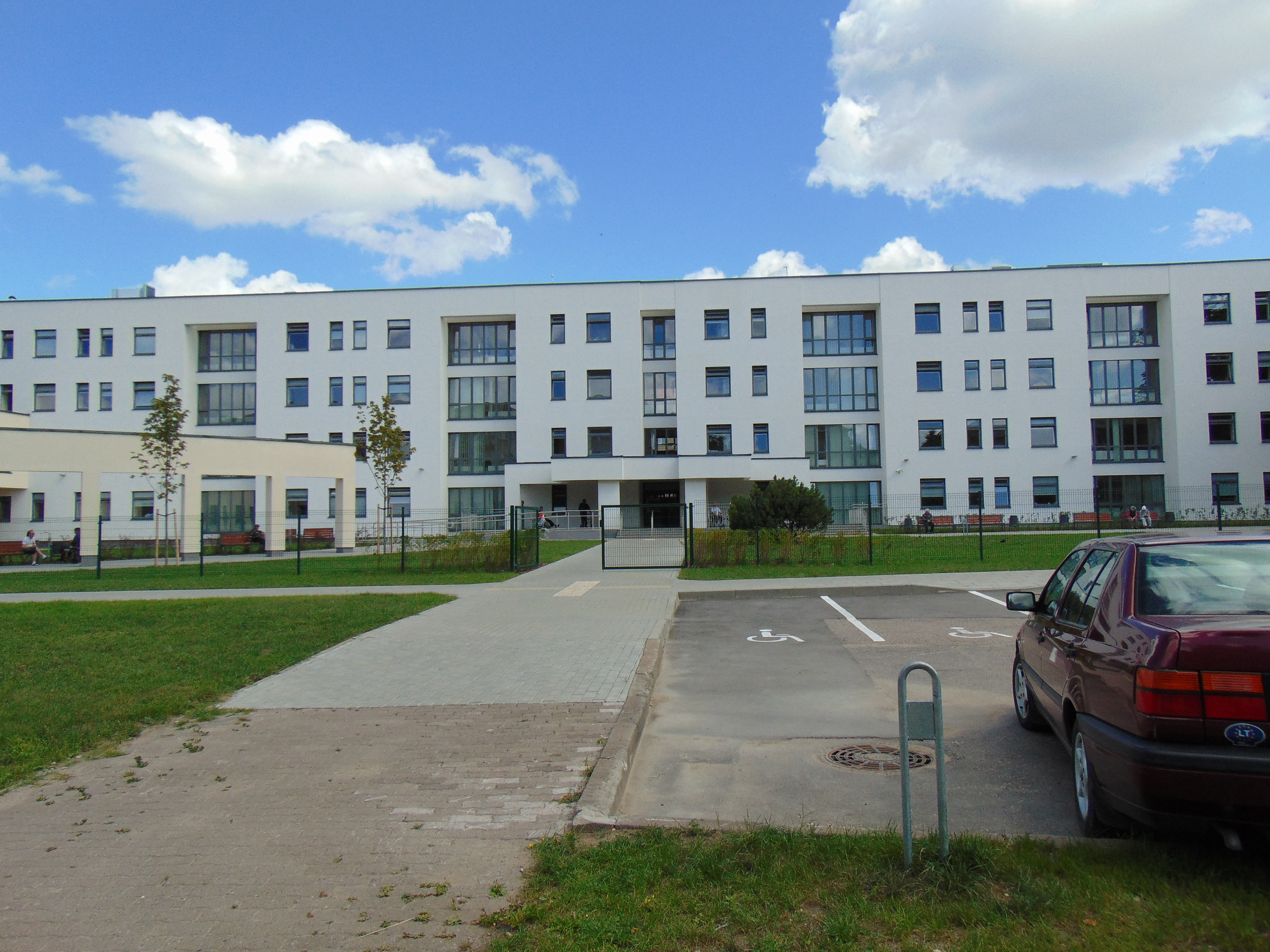 Hospital of St. Roch, Vilnius